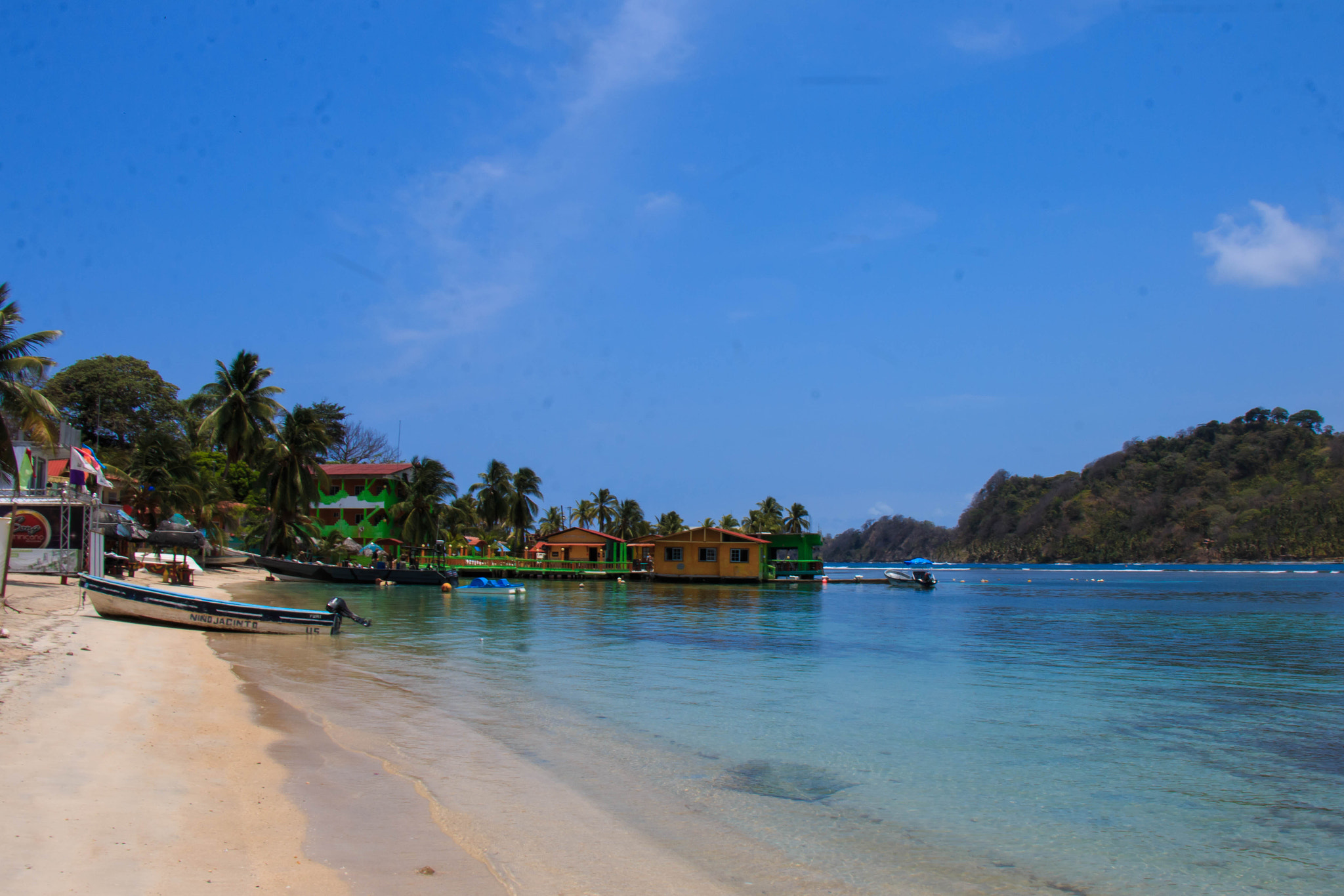 500px provided description: The beautiful Caribbean sea on Isla Grande, Panama. It?s a beautiful and quiet beach, a little paradise near from the city! Feel free to leave any comment Follow me! [#sky ,#landscape ,#sea ,#water ,#island ,#blue ,#ocean ,#summer ,#panama ,#seascape ,#paradise ,#caribbean ,#isla ,#colon]